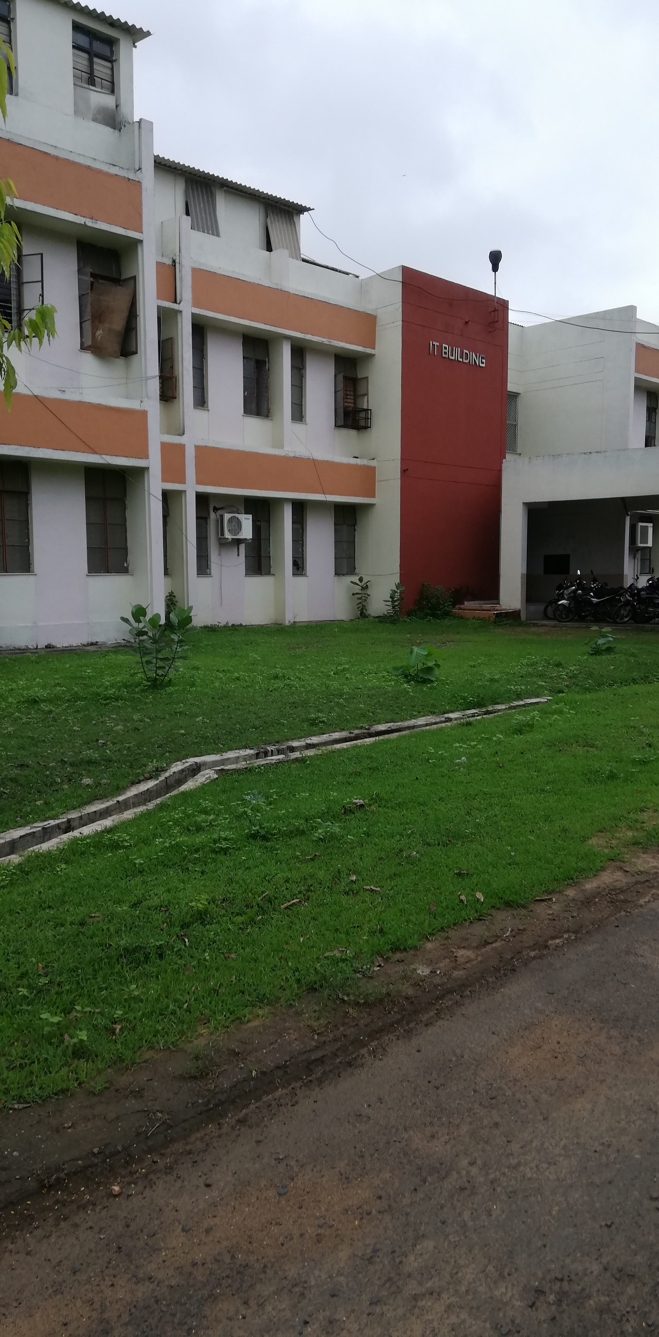 Computer Science and Engineering Department